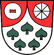 Coat of arms of Göhren